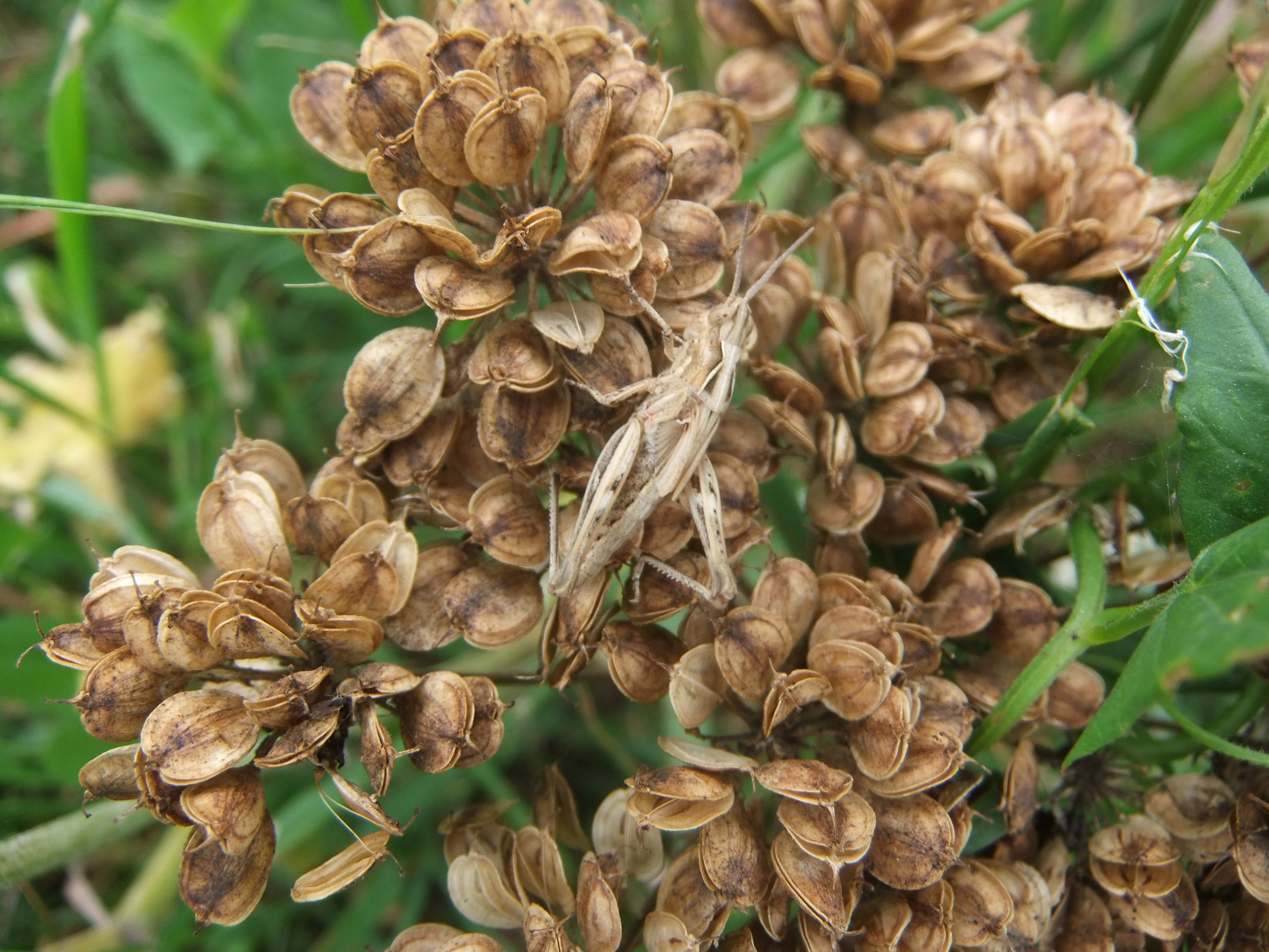 I think this is probably a common field grasshopper (Chorthippus brunneus) nymph. It has sharply incurved lateral keels on the pronotum, and the forewings are very short.